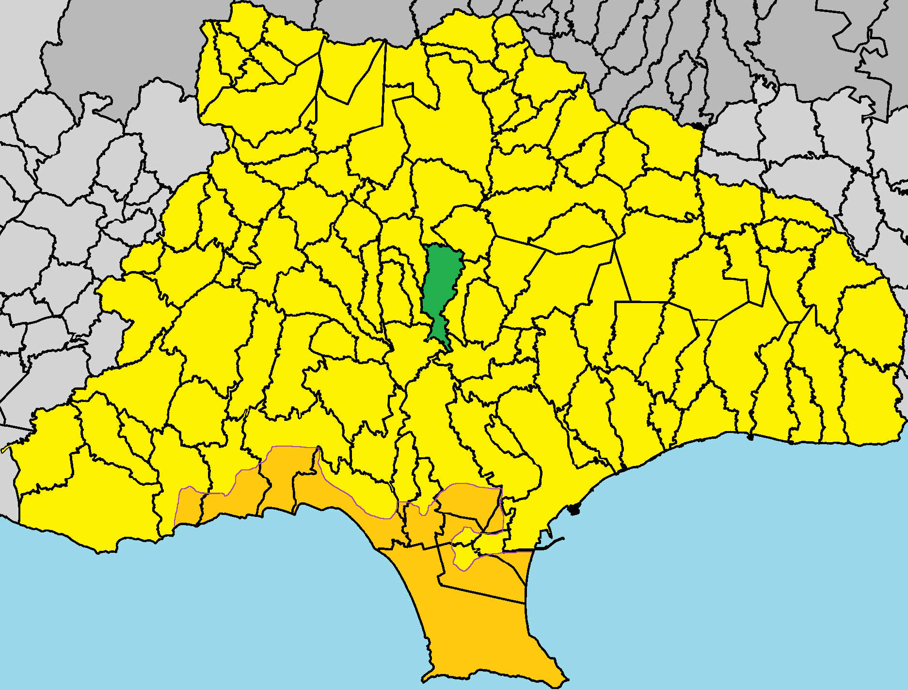 Limnatis, Limassol in Limassol District.